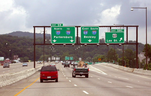 Interstate 64 along the viaduct in Charleston, West Virginia.